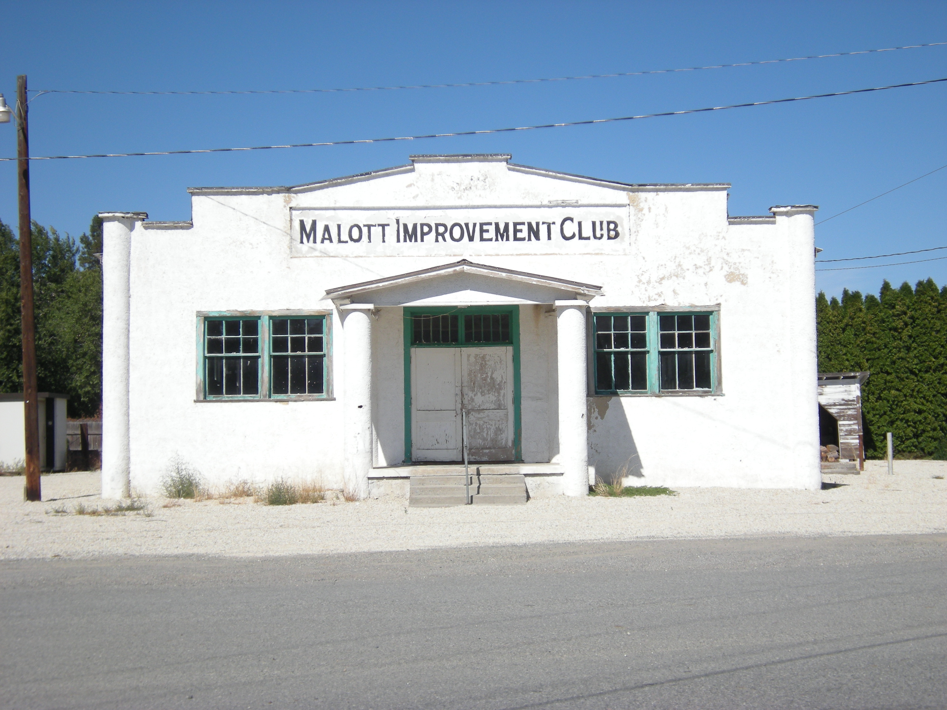 Malott Improvement Club, Mallot, Washington.